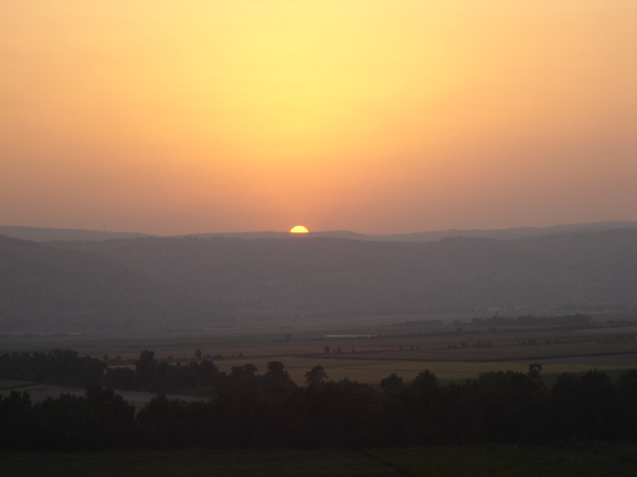 Geography of Israel